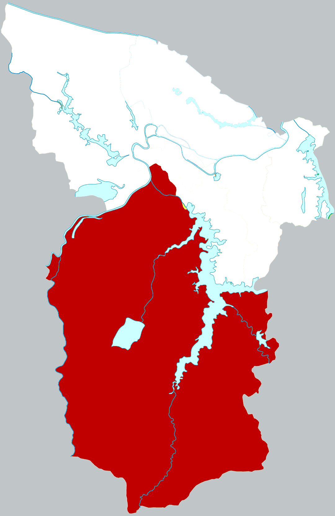 Location of Shou county in Huainan city, China